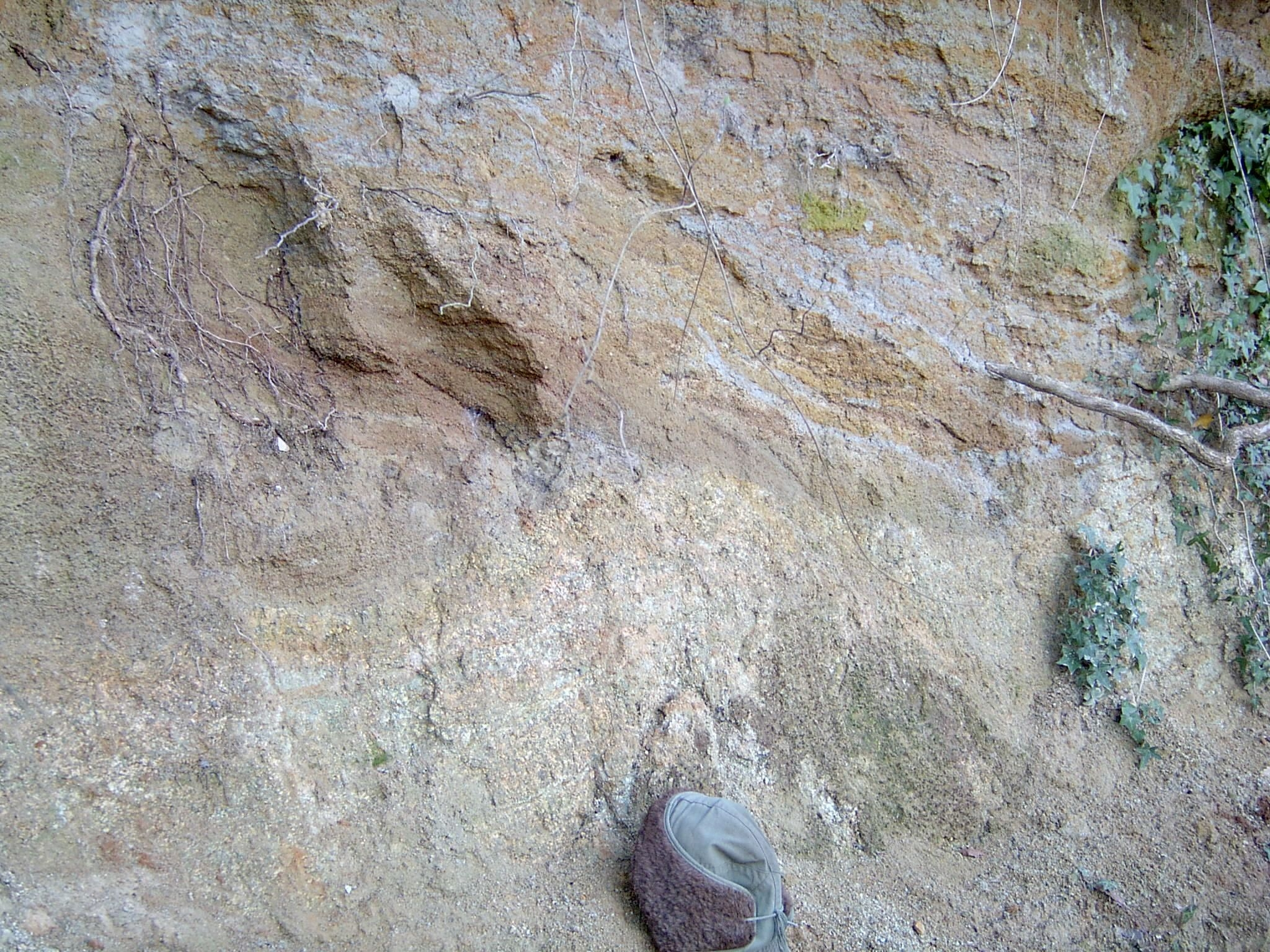 The Piégut-Pluviers granodiorite transgressed by Liassic arkoses. La Bardinie quarry near Nontron, Dordogne, France.